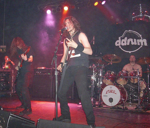 Sala Macumba Madrid , 29 Febrero 2008 Opening for Megadeth Matt Drake - Vocals , Guitar . Ol Drake - Guitar . Mike Alexander - Bass . Ben Carter - Drums .